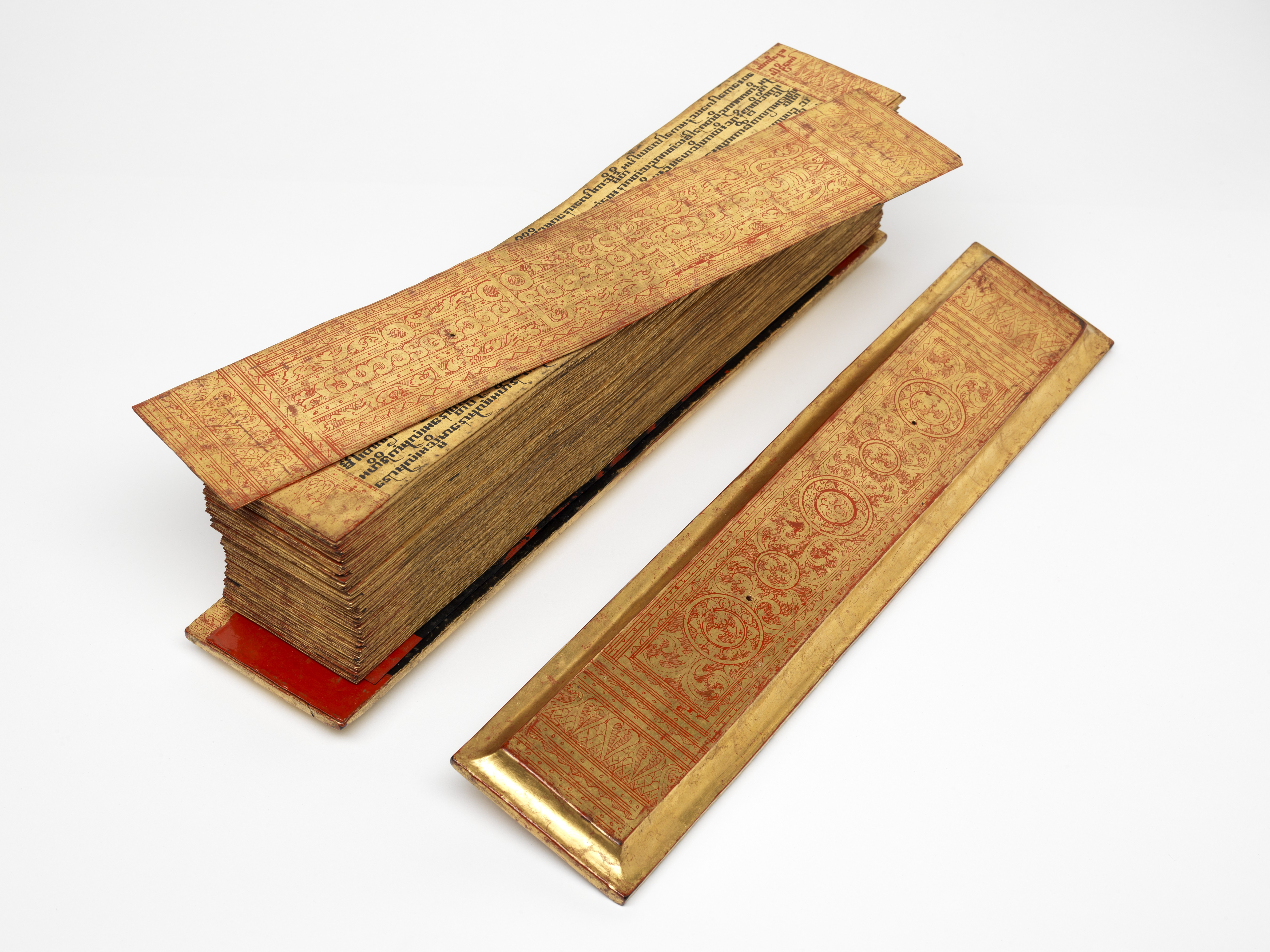 Burmese-Pali Manuscript Asian Collection